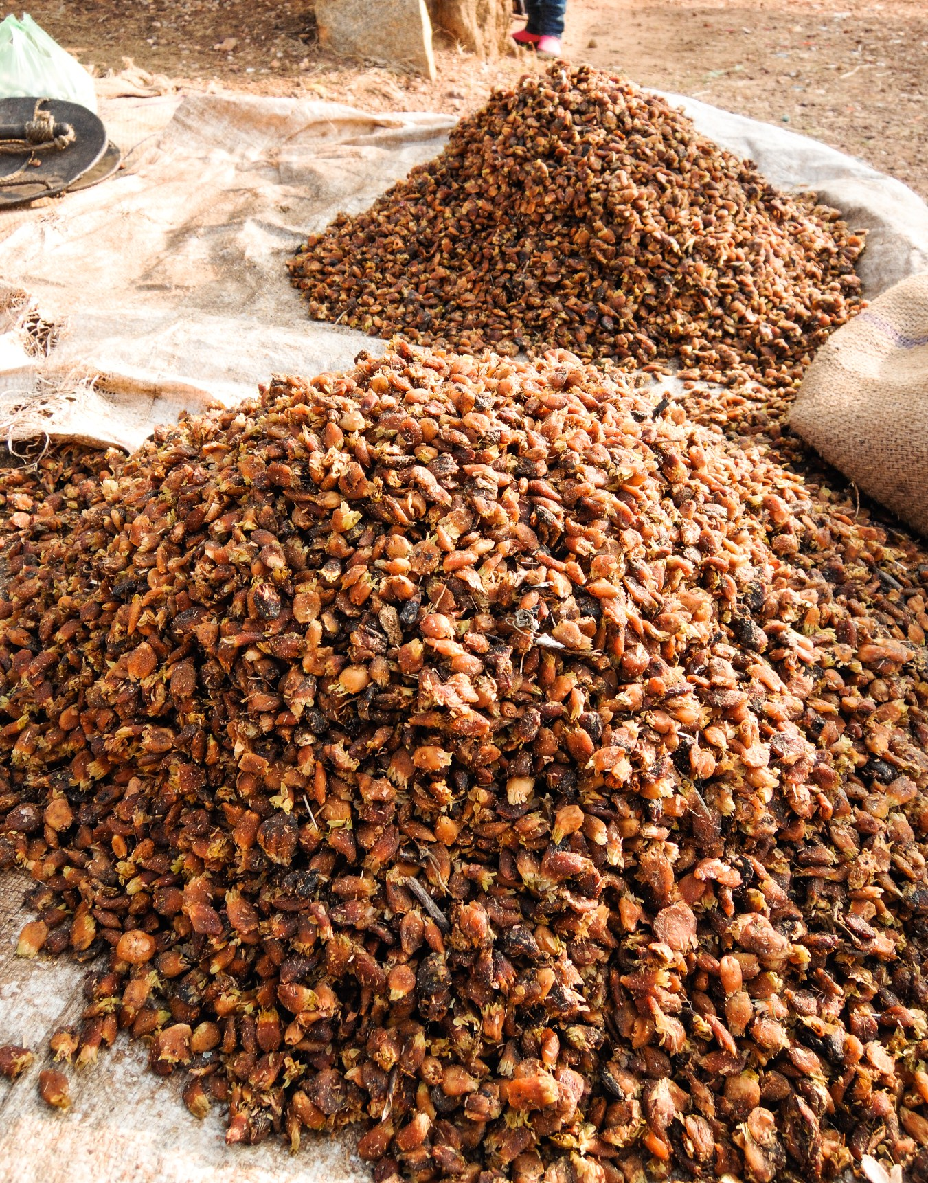 Mahua for sale in local market which is usually used to make wine at home.